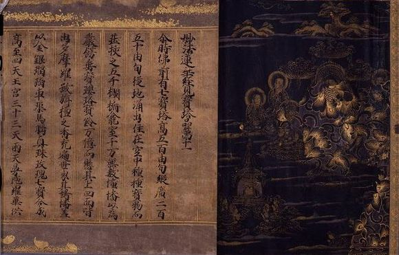 Lotus Sutra (法華経一品経, hokekyō ipponkyō)